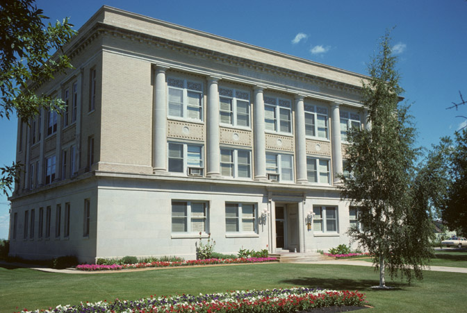 Front of the Steele County Courthouse, located along Washington Avenue in Finley, North Dakota, United States. Built in 1925, it is listed on the National Register of Historic Places.